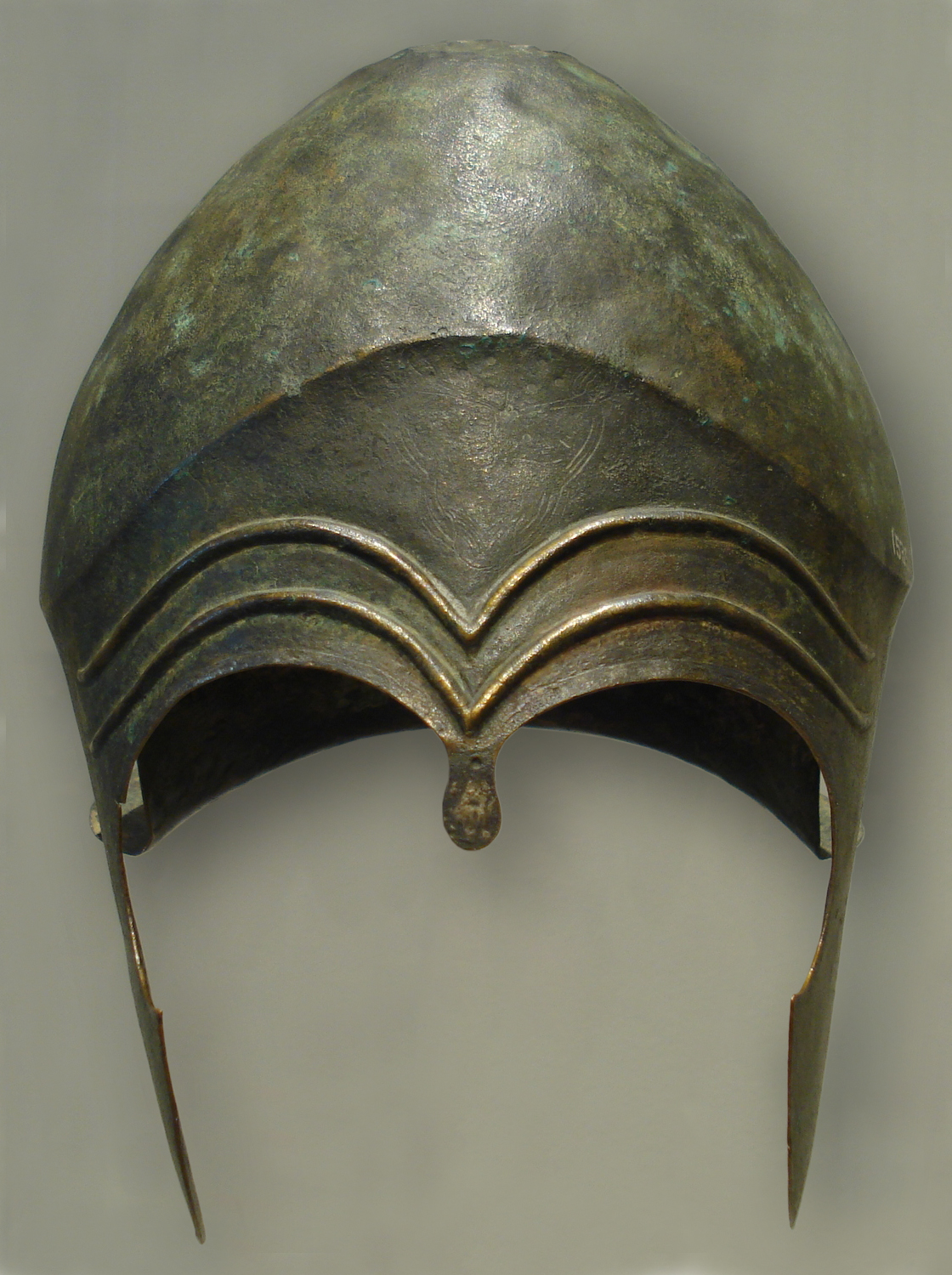 Chalcidean helmet. Bronze. Greek, 2nd half of the 6th century BC.